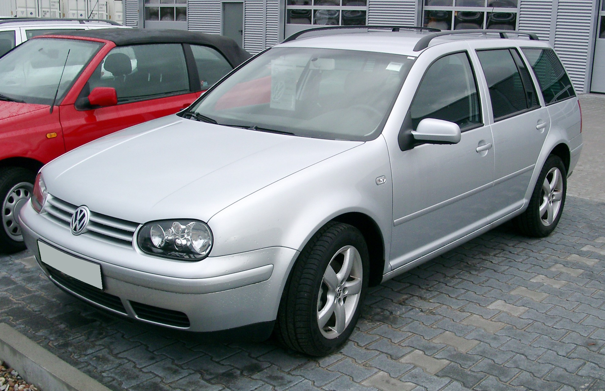 VW Golf IV Variant